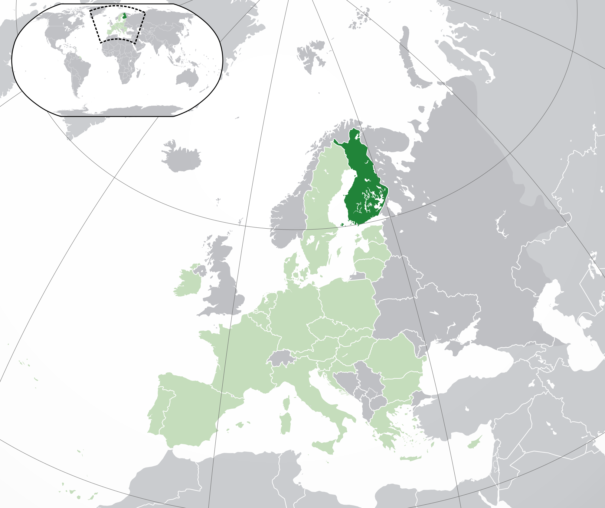 Location map: Finland w/Åland (dark green) / European Union (light green) / Europe (dark grey); inspired by and consistent with general country locator maps by User:Vardion, et al.